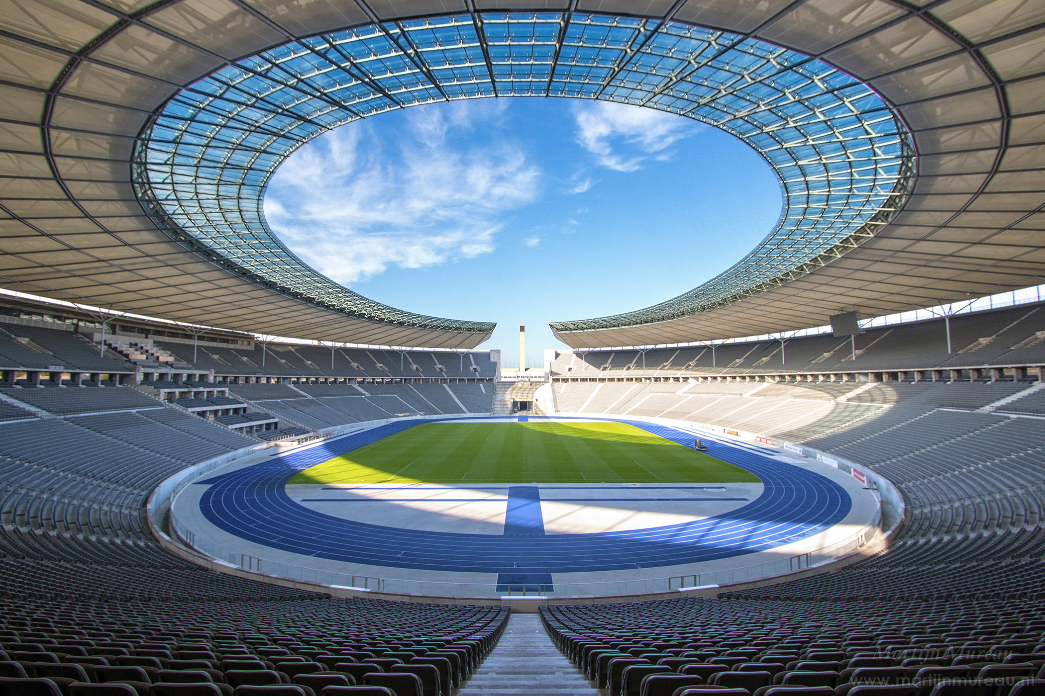 An overview of the Olympic Stadium in Berlin, Germany